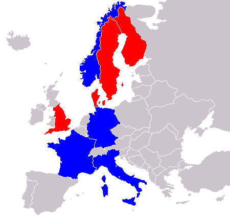 2005 UEFA Women's Championship